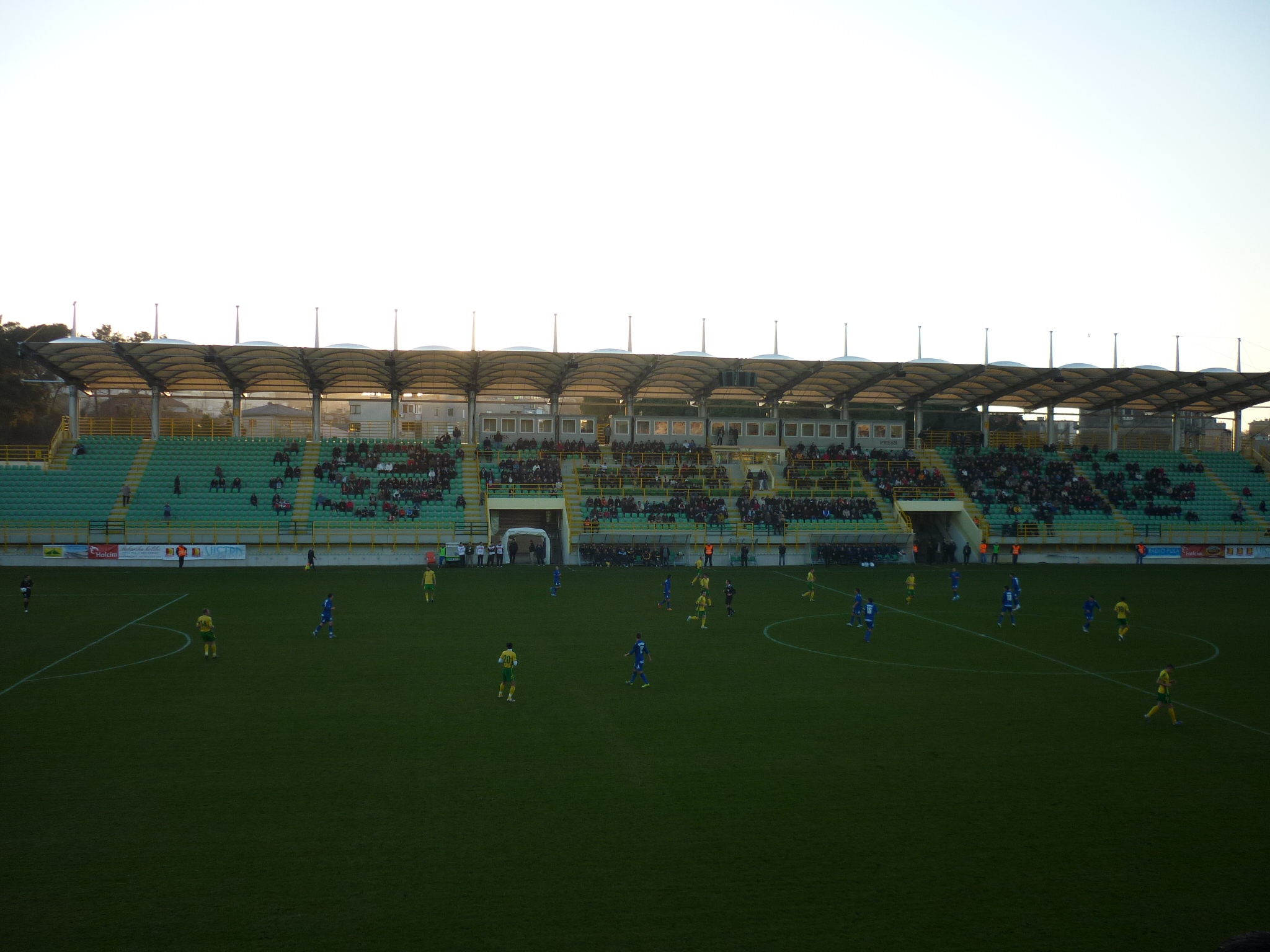 Match of Istra 1961 and Dinamo Zagreb on stadium Aldo Drosina